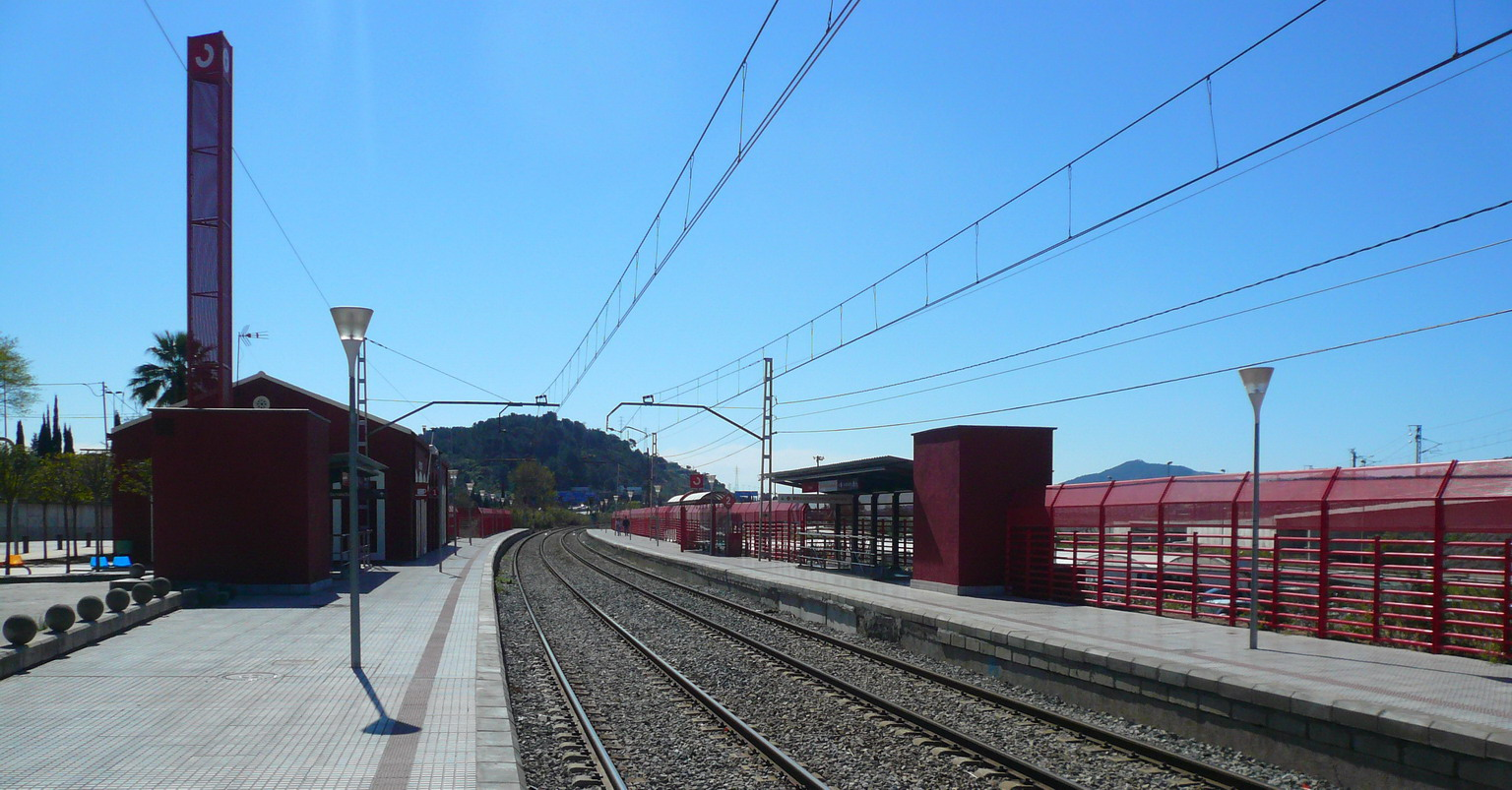 El Papiol station, Baix Llobregat, Catalonia